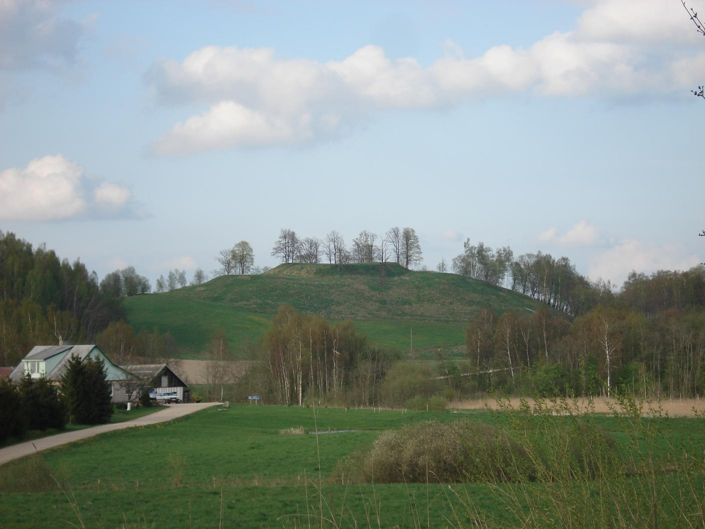 Bilioniai hill fortress